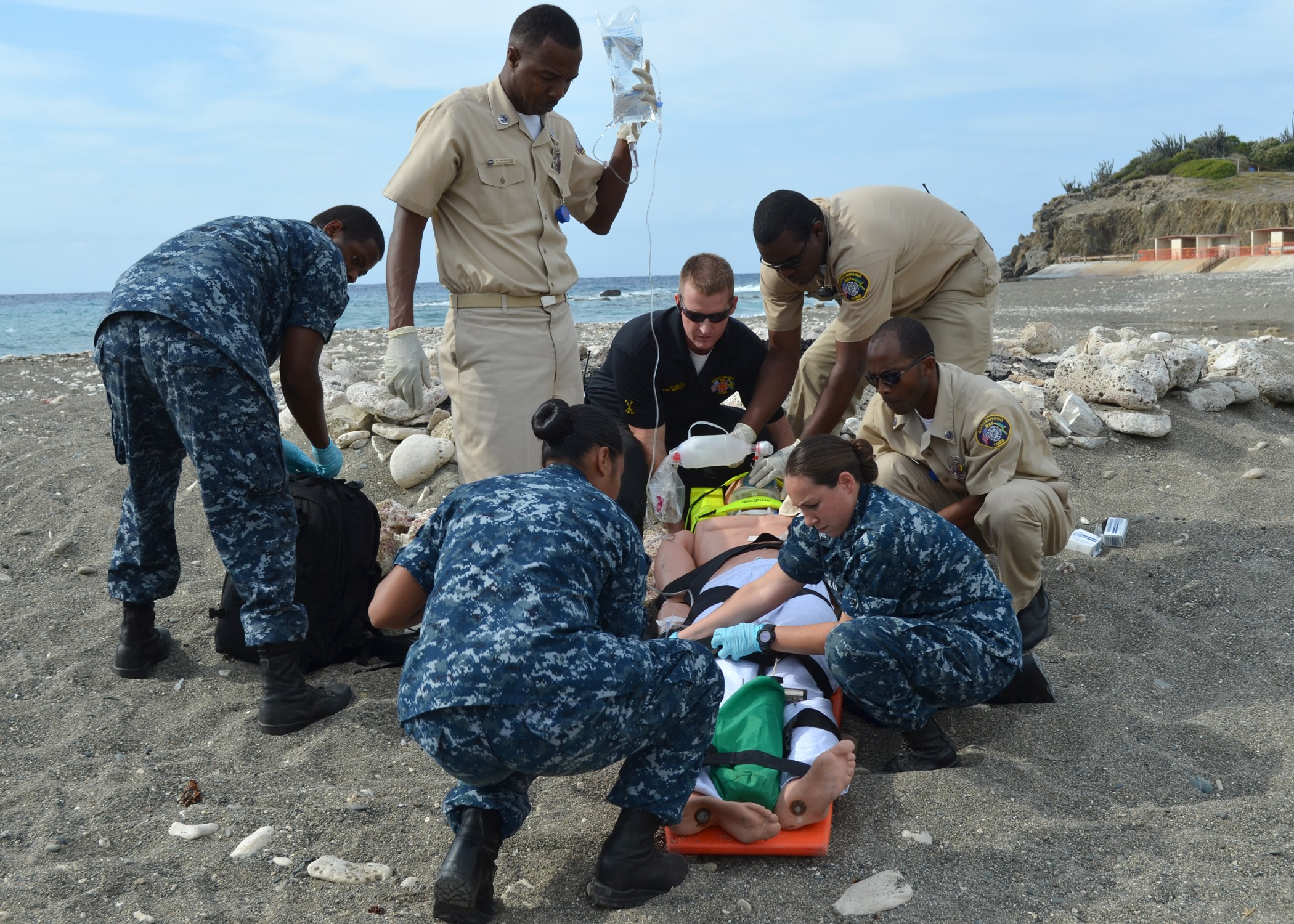 GUANTANAMO BAY, Cuba (Feb. 3, 2012) U.S. Naval Hospital Guantanamo Bay emergency technician (EMT) trainees work with Naval Station Guantanamo Bay firemen to prepare a trauma training mannequin for transportation during their final EMT field training exercise at Windmill Beach. Because of its isolation, U.S Naval Hospital Guantanamo Bay is currently the only Naval medical facility where hospital corpsmen receive EMT training through the hospital. Once certified, the corpsmen are nationally registered EMTs, qualified to work in the hospital's emergency room and respond to on-site emergencies. (U.S. Navy photo by Stacey Byington/Released)